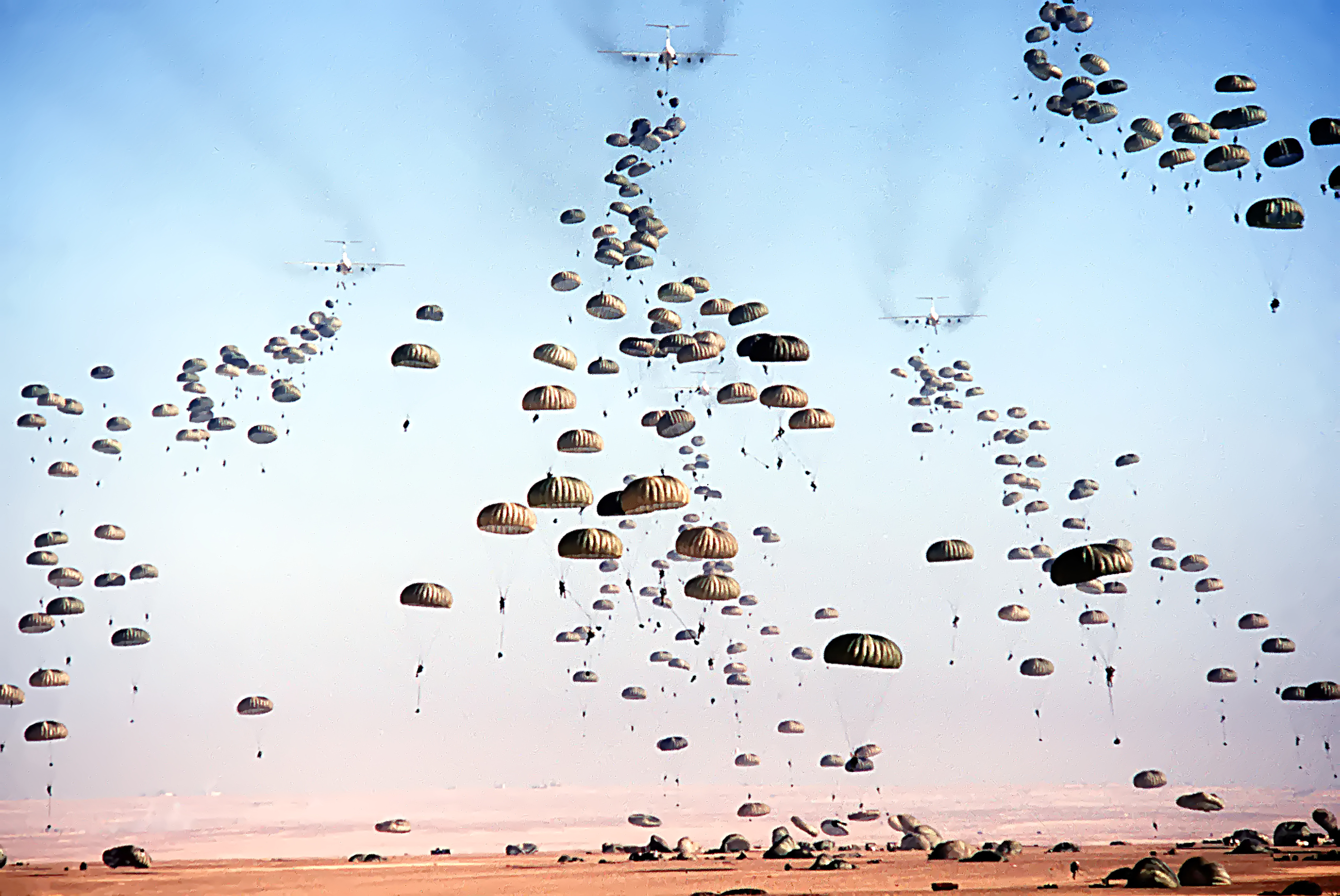 Original caption: "Parachutes fill the air as a mass drop of approximately 1000 troops takes place during exercise Bright Star '82. C-5 Galaxy aircraft are being used. "